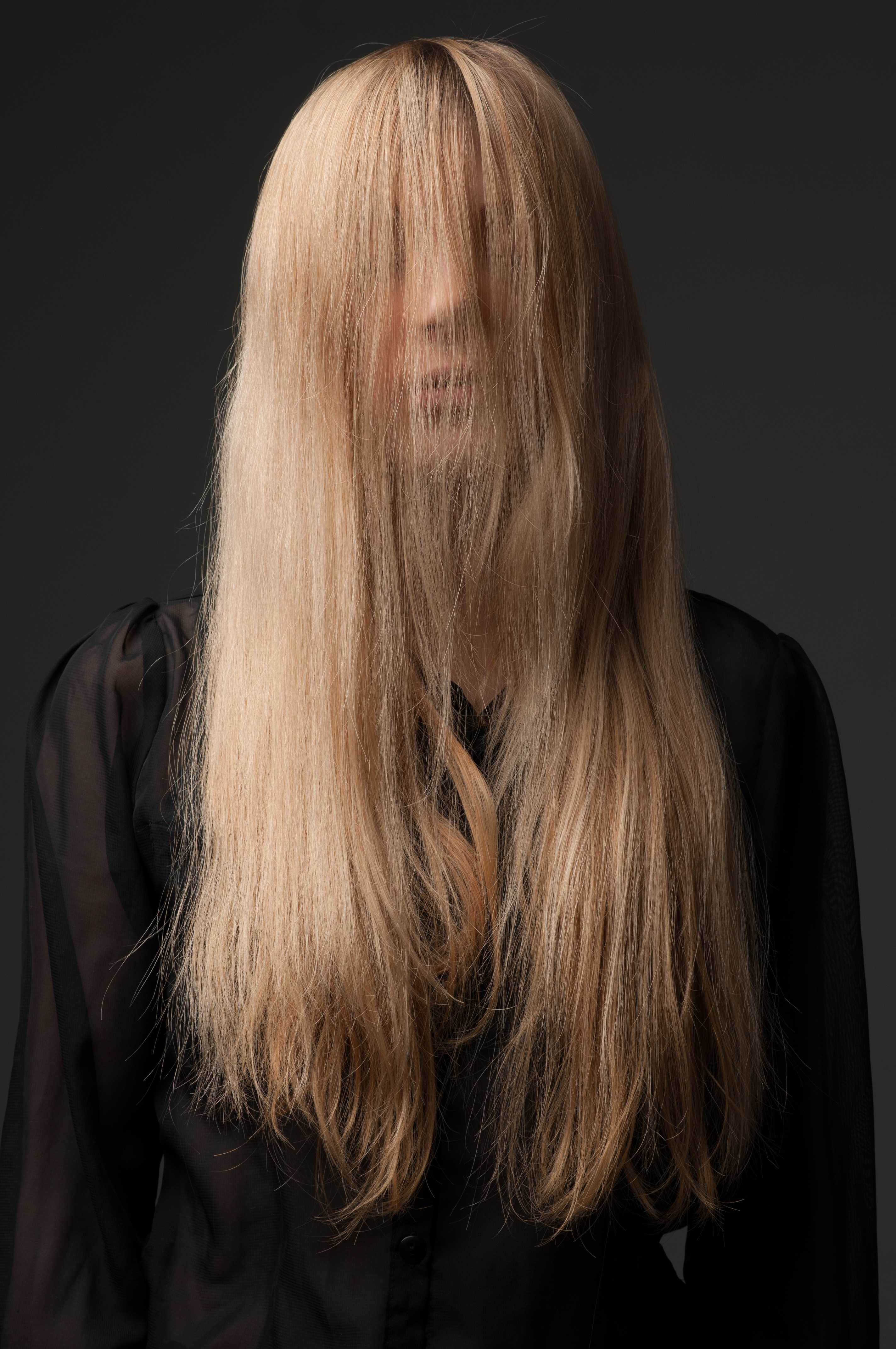 Wadowice, Poland